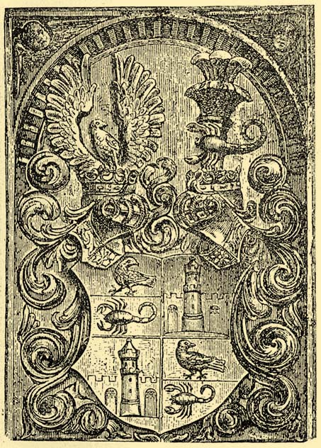 Coat arms of Miklós Jurisics